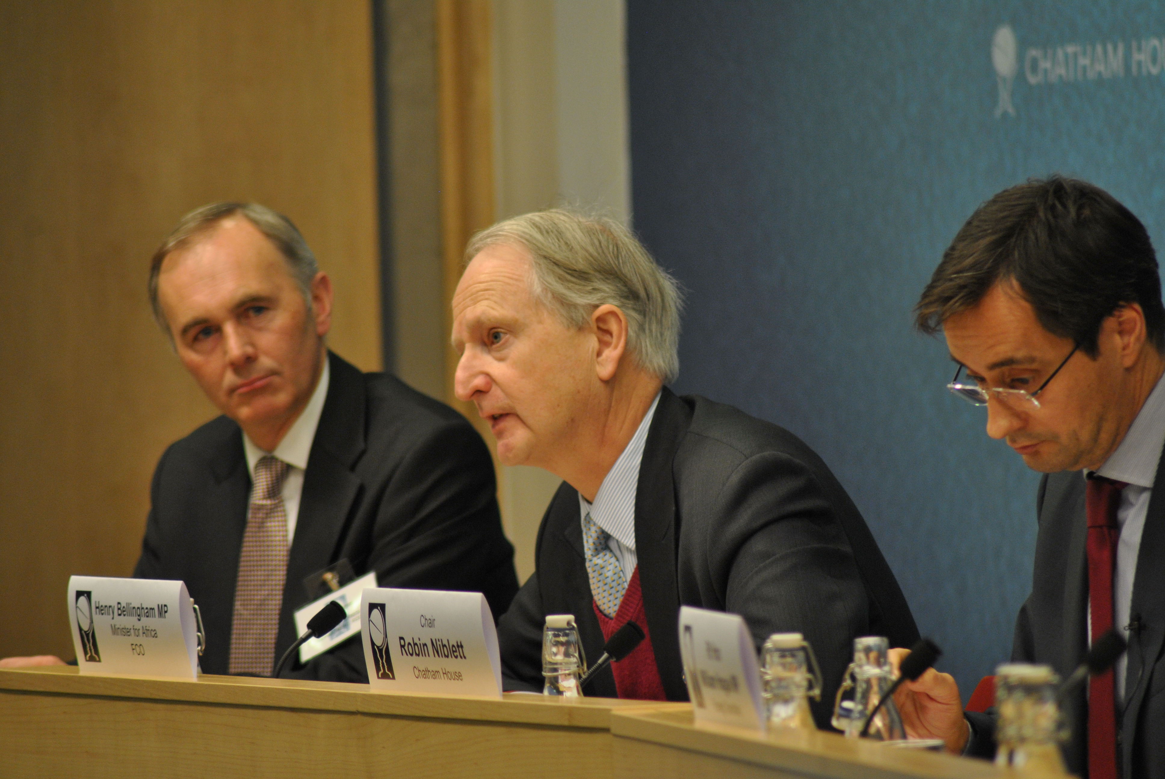 British Government Consultation on Somalia, 8 February 2012